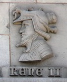 This picture shows Duke of Lorraine René II's effigy on Door of The Craffe at Nancy.